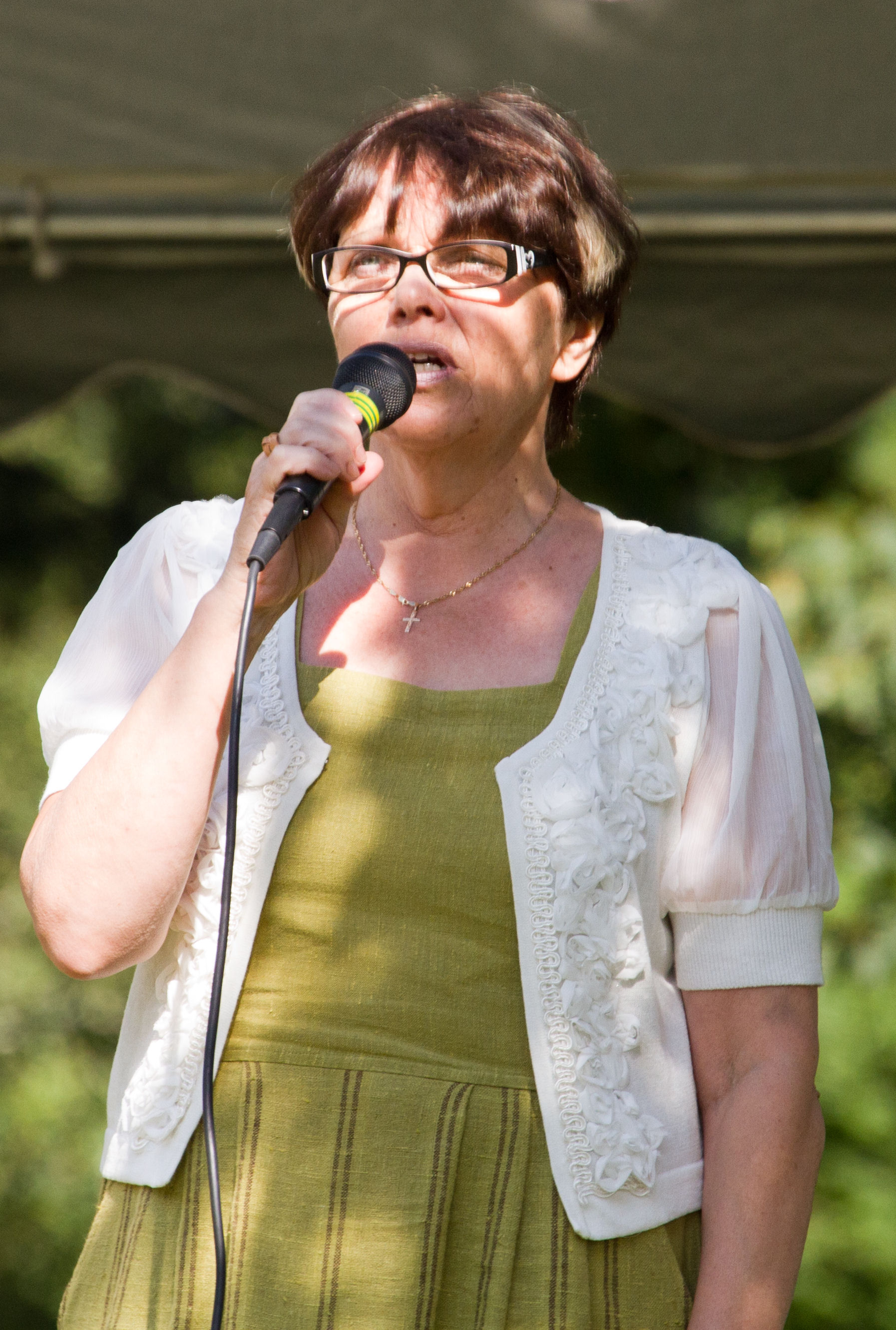 Tuulikko Eloranta, finnish singer